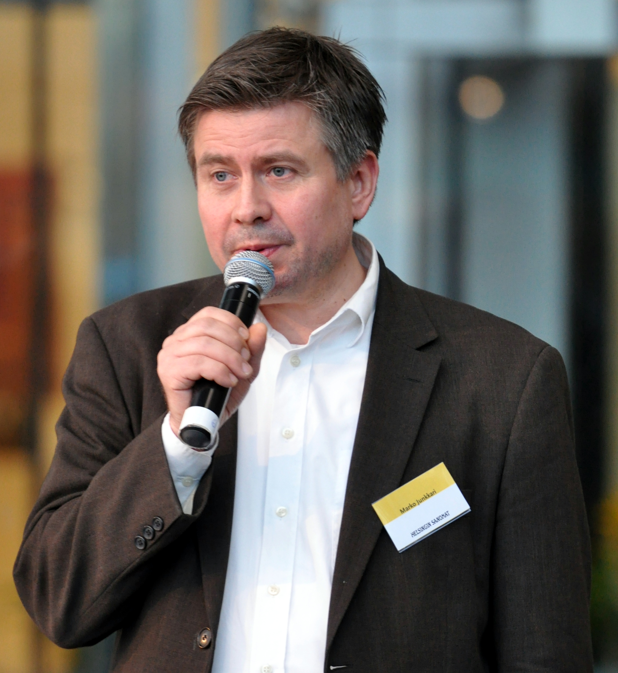 Marko Junkkari is a Finnish journalist.